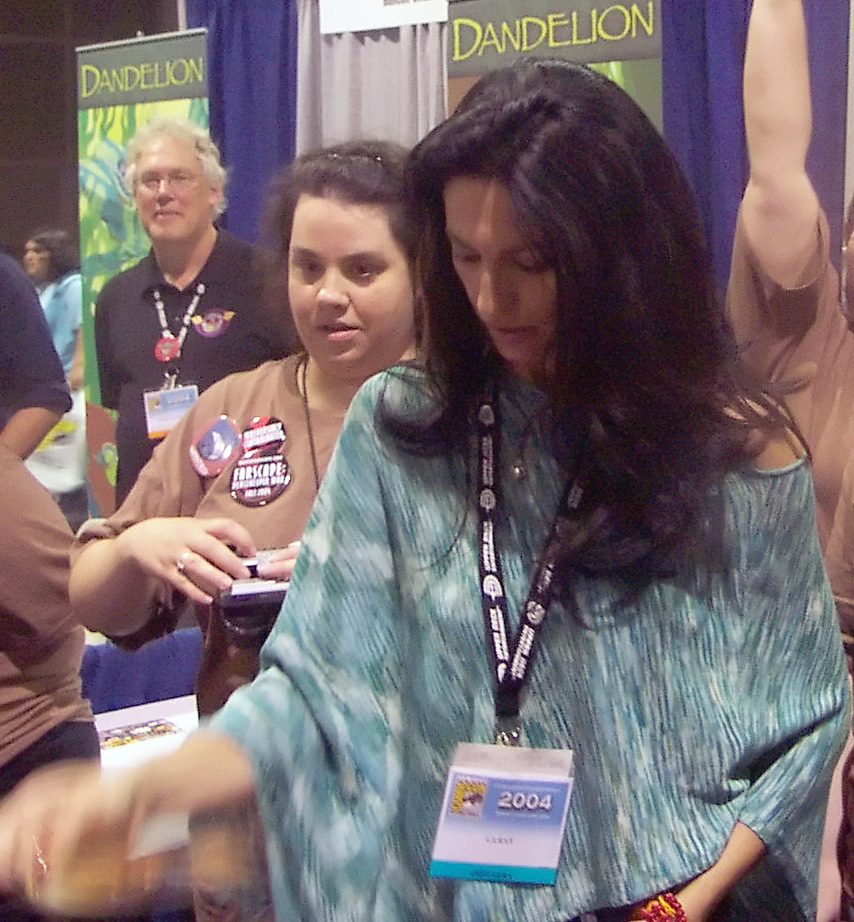 Claudia Black at the 2004 ComicCon, San Diego. (cropped from a Flickr original; original caption was: Ben Browder and Claudia Black visit the "Save Farscape/Watch Farscape" fan booth. Incredibly gracious and friendly, as well as grateful to the campaign.)